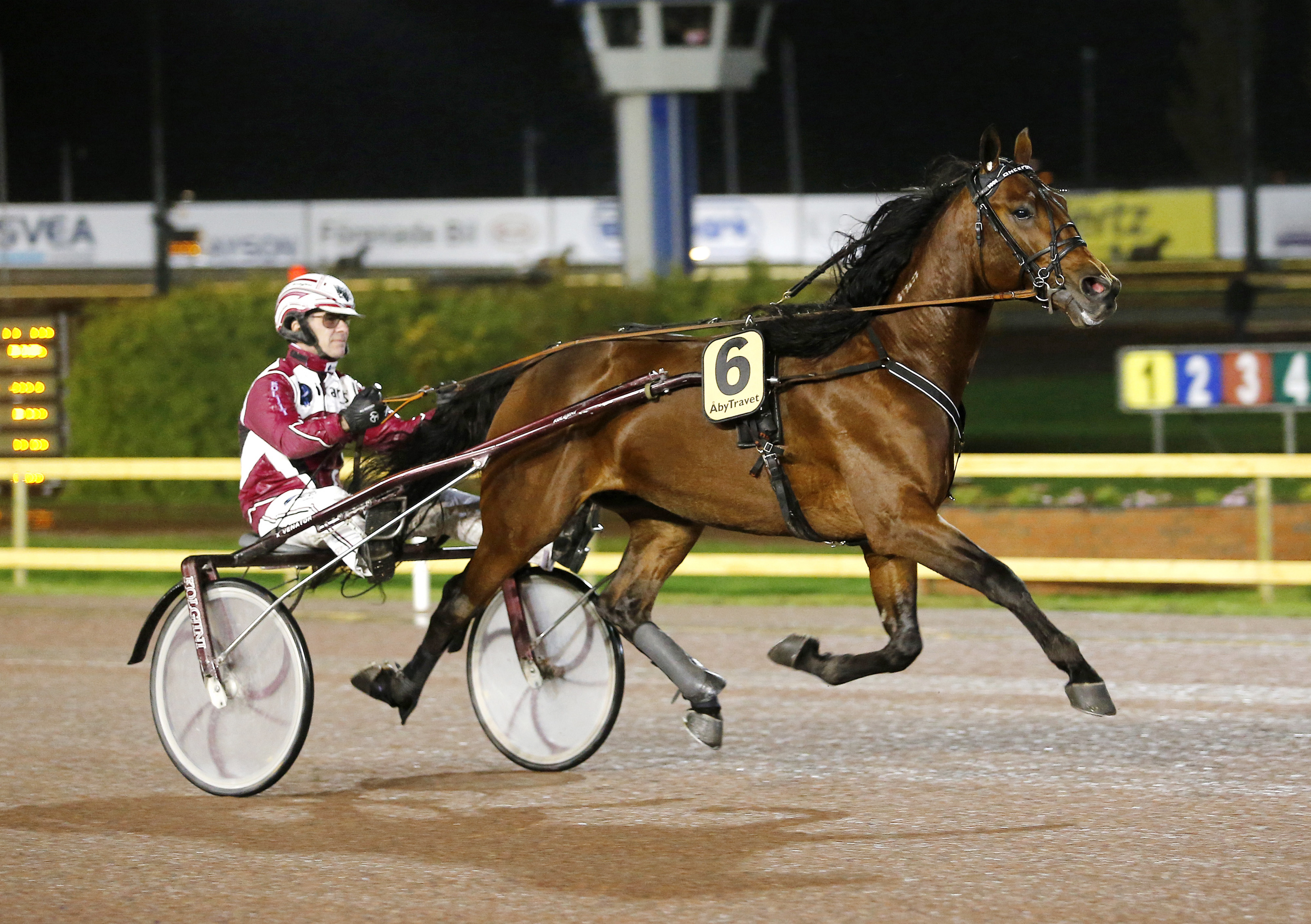 Foto: Hanold/ALN Åby 20131031 Onceforall Face med Lutfi Kolgjini